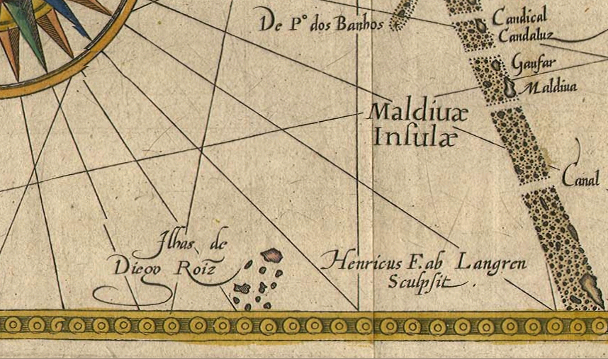 Deliniantur in hac tabula Caption of Signature Henricus F.ab Langren_Sculpsit